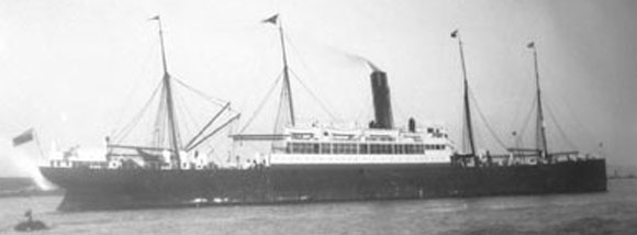 The SS Mohegan